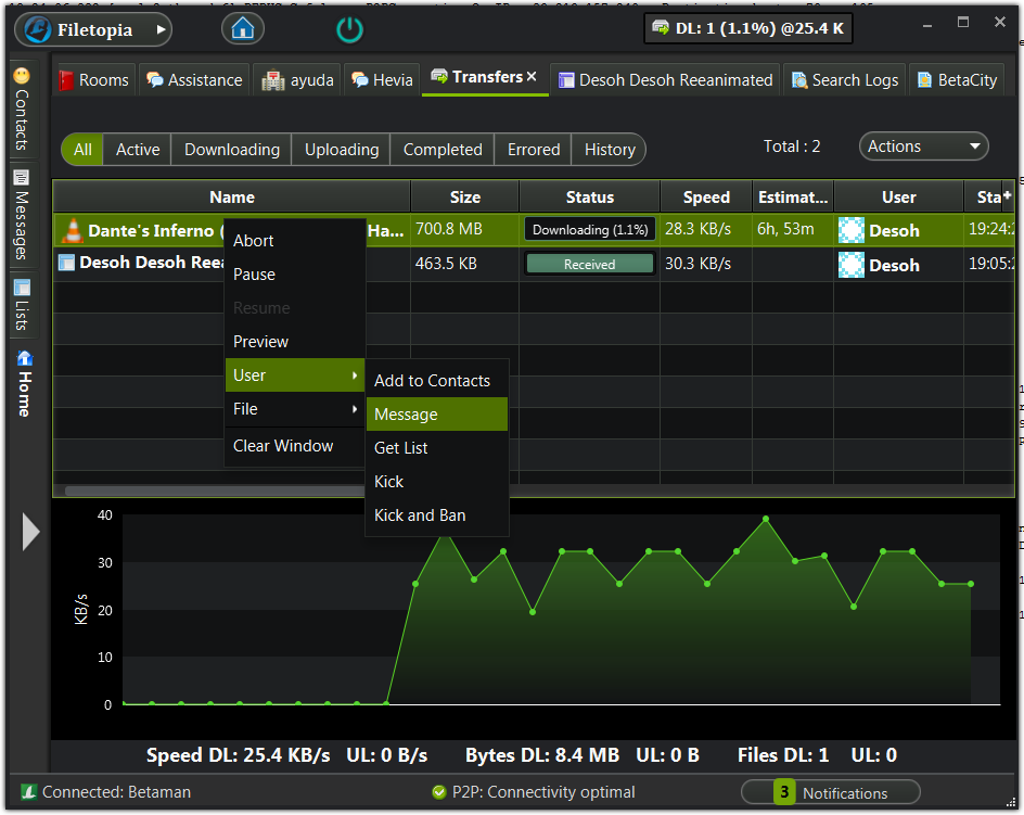 Download in progress